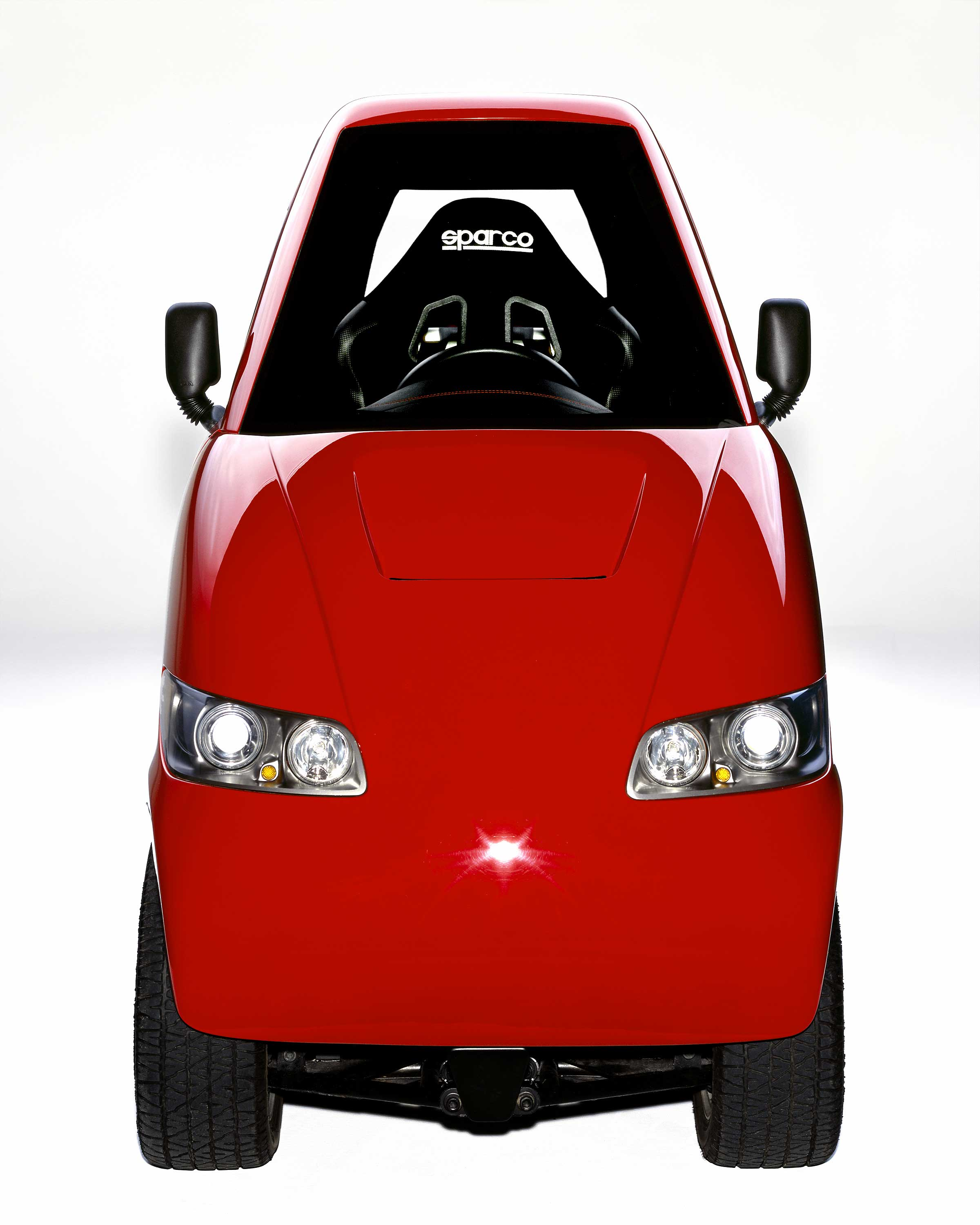 Commuter Cars Tango T600 Front View used by permission of company president Rick Woodbury, reported by User:D0li0